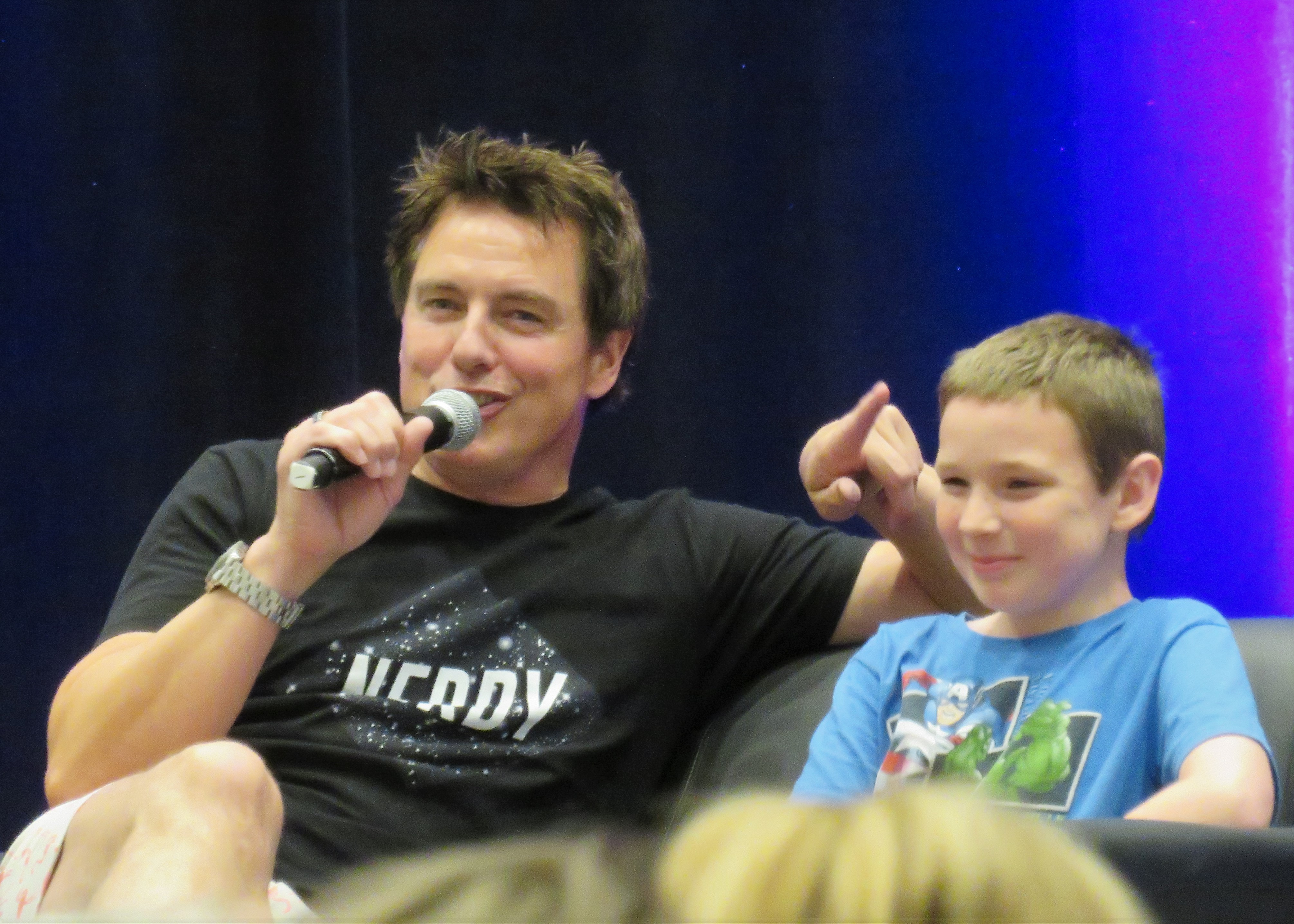 John Barrowman 07